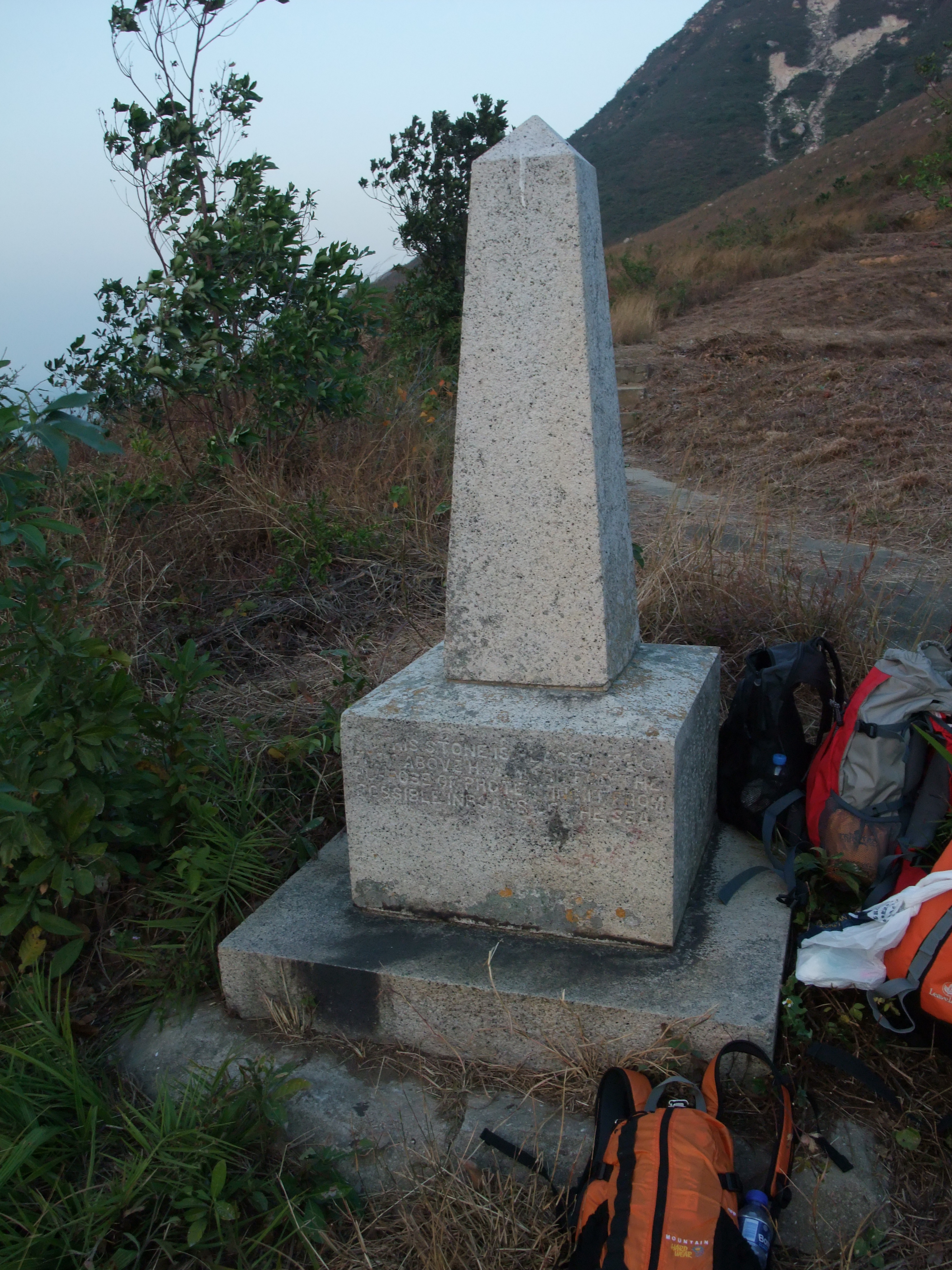 Photo of North Lantau Obelisk ImageNote|id=1|x=1107|y=2260|w=1020|h=713|dimx=3000|dimy=4000|style=2 This grave is in a graveyard in HONG-KONG. The grave is actually called an obelisk. ImageNoteEnd|id=1